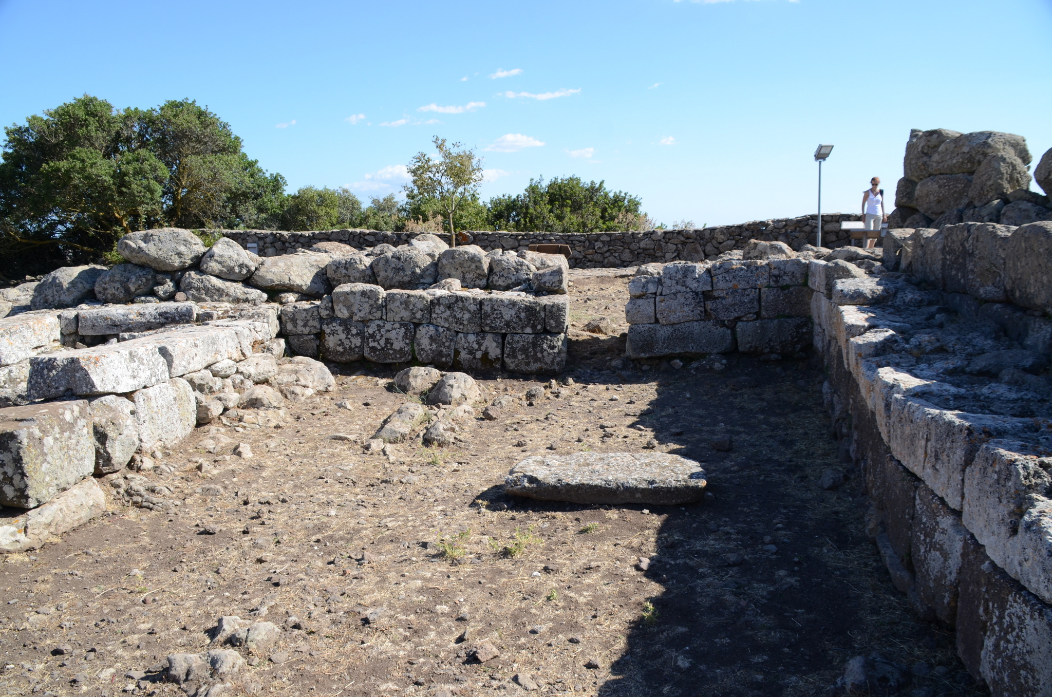 tempio ipetrale